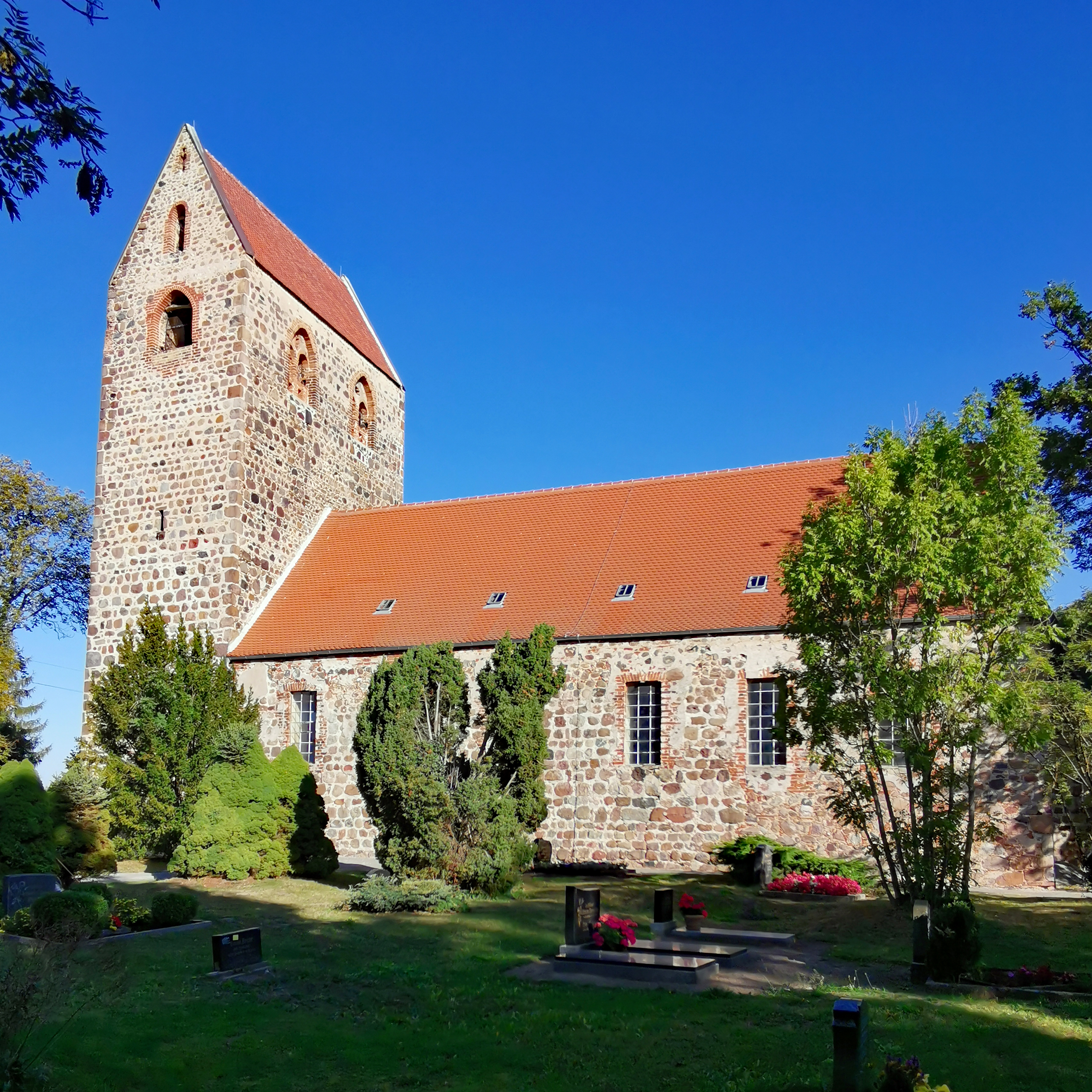 Kirche Krusemark (Saxony-Anhalt, Germany)